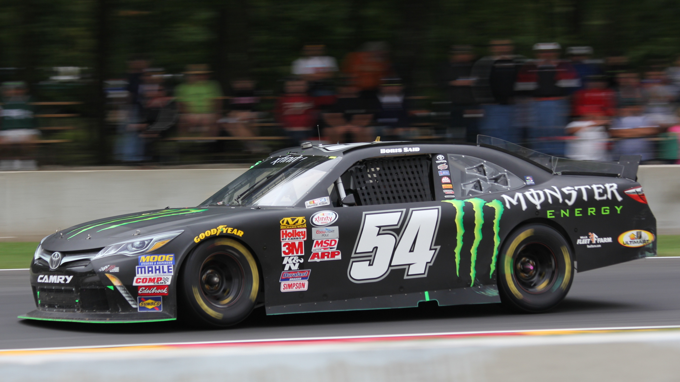 The NASCAR Xfinity Series car of Boris Said turning left in Turn 6 at Road America.